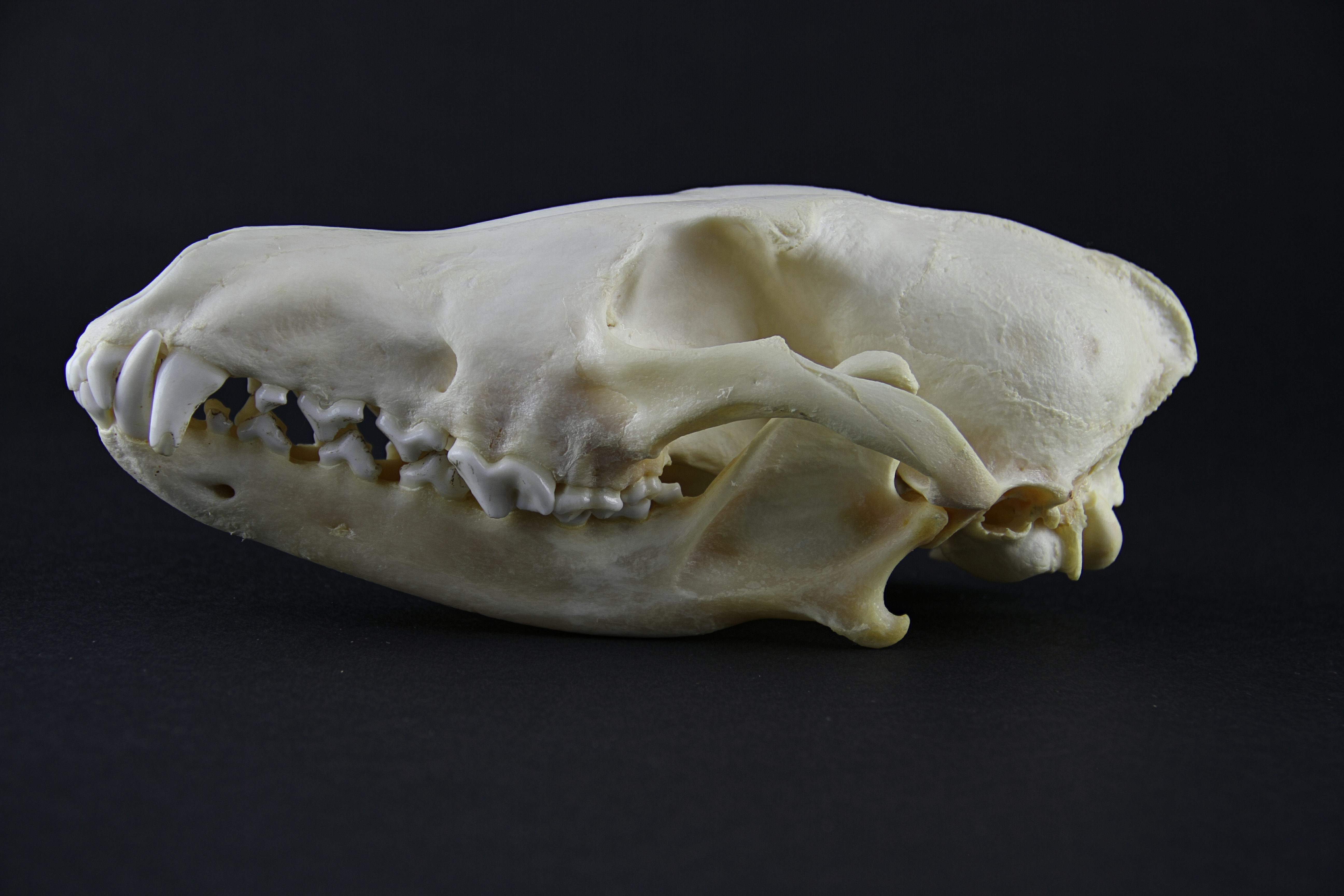 Skull of a canis latrans, lateral view.